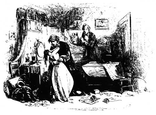 David Copperfield, Mr Pegotty's dream comes true by Phiz